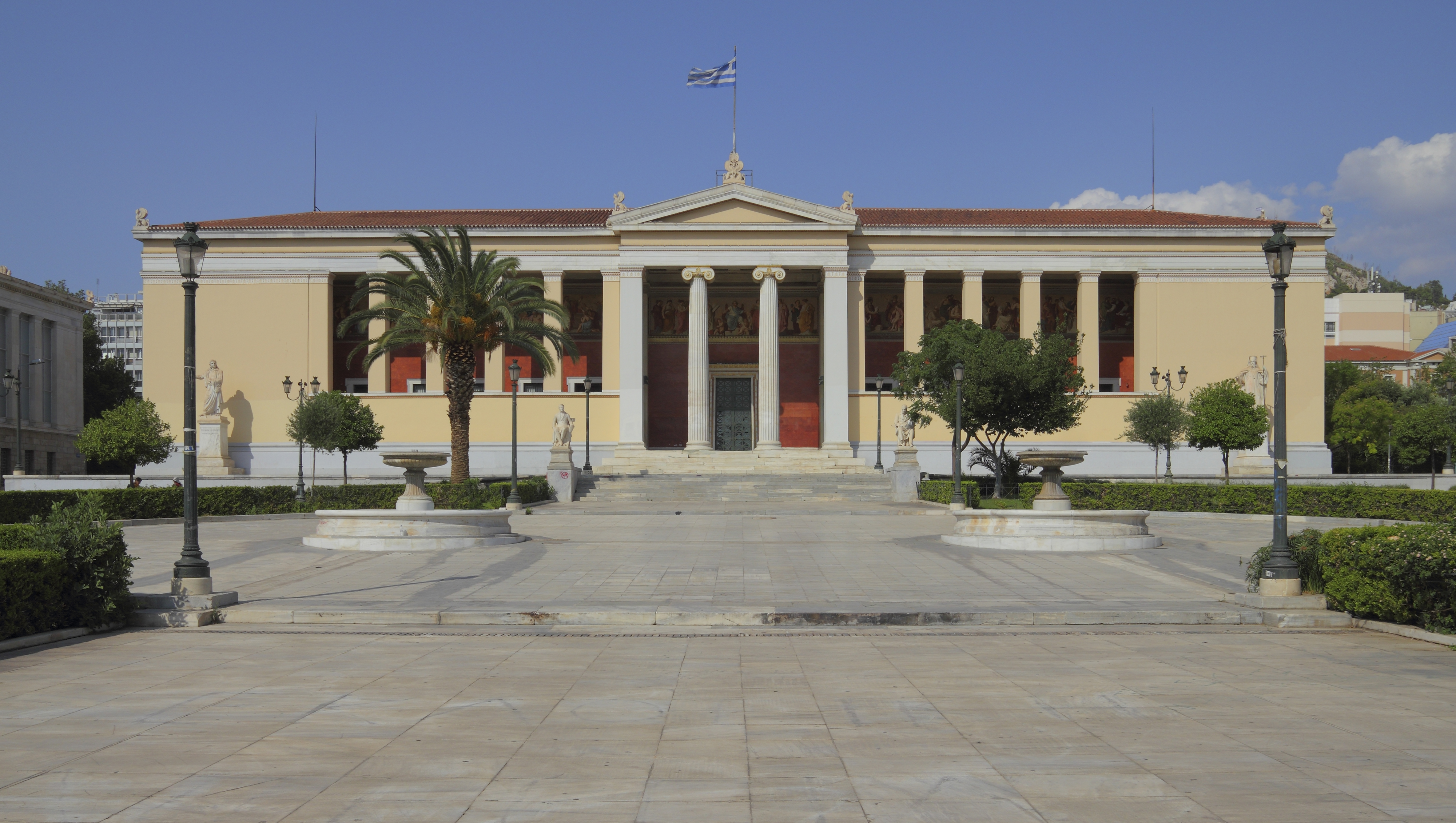 Building of the University in Athens (Attica, Greece)